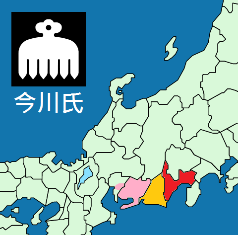 Map of Imagawa clan 1552